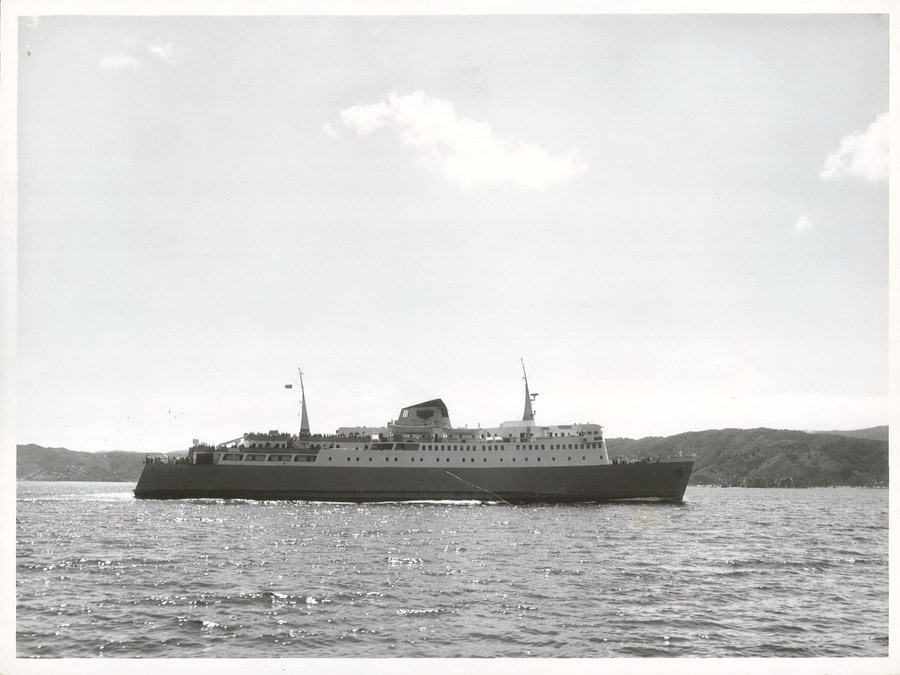 Aramoana leaves Wellington for Picton, January 1965